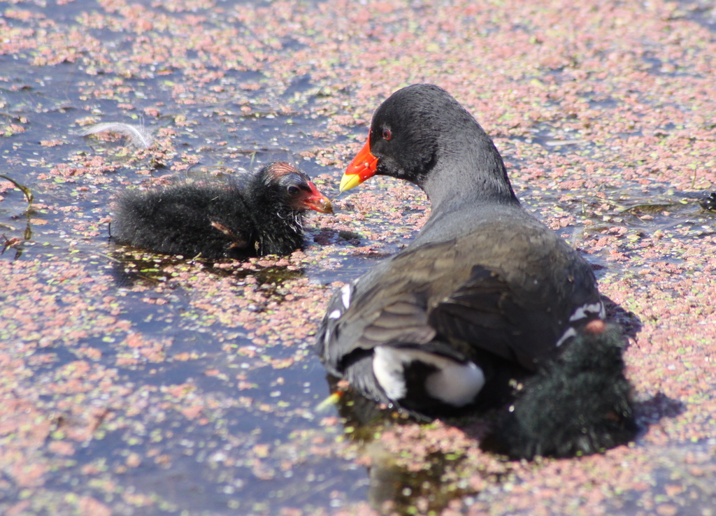 Common Moorhen Gallinula chloropus meridionalis with juvenile, at Marievale Nature Reserve, Gauteng, South Africa